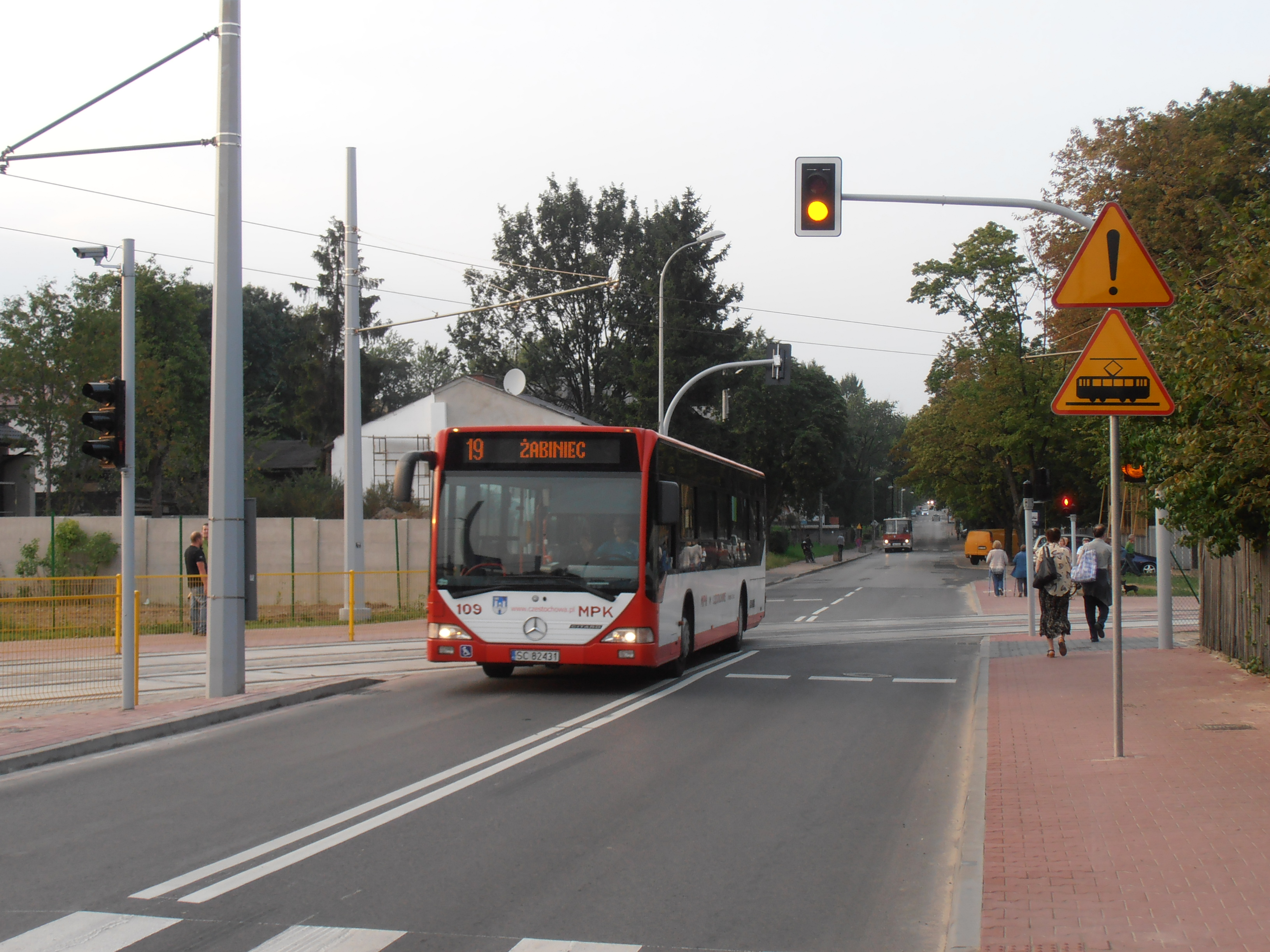 Mercedes-Benz Citaro O530 bus (#109, reg. SC 82431) on Limanowskiego Street, Częstochowa, Poland. Built 2006, MPK Częstochowa operator.